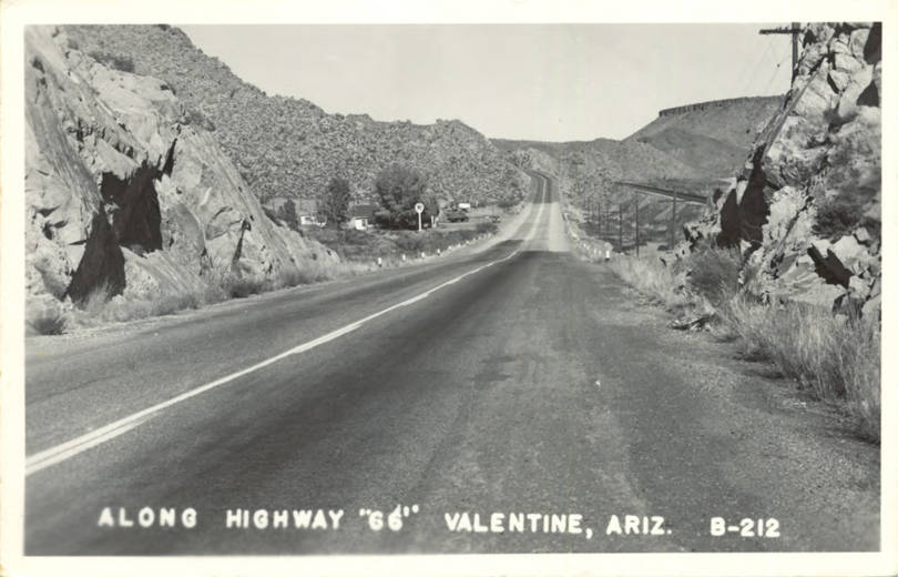 Postcard view of Route 66 in Valentine, AZ, with rock faces on either side of the highway.